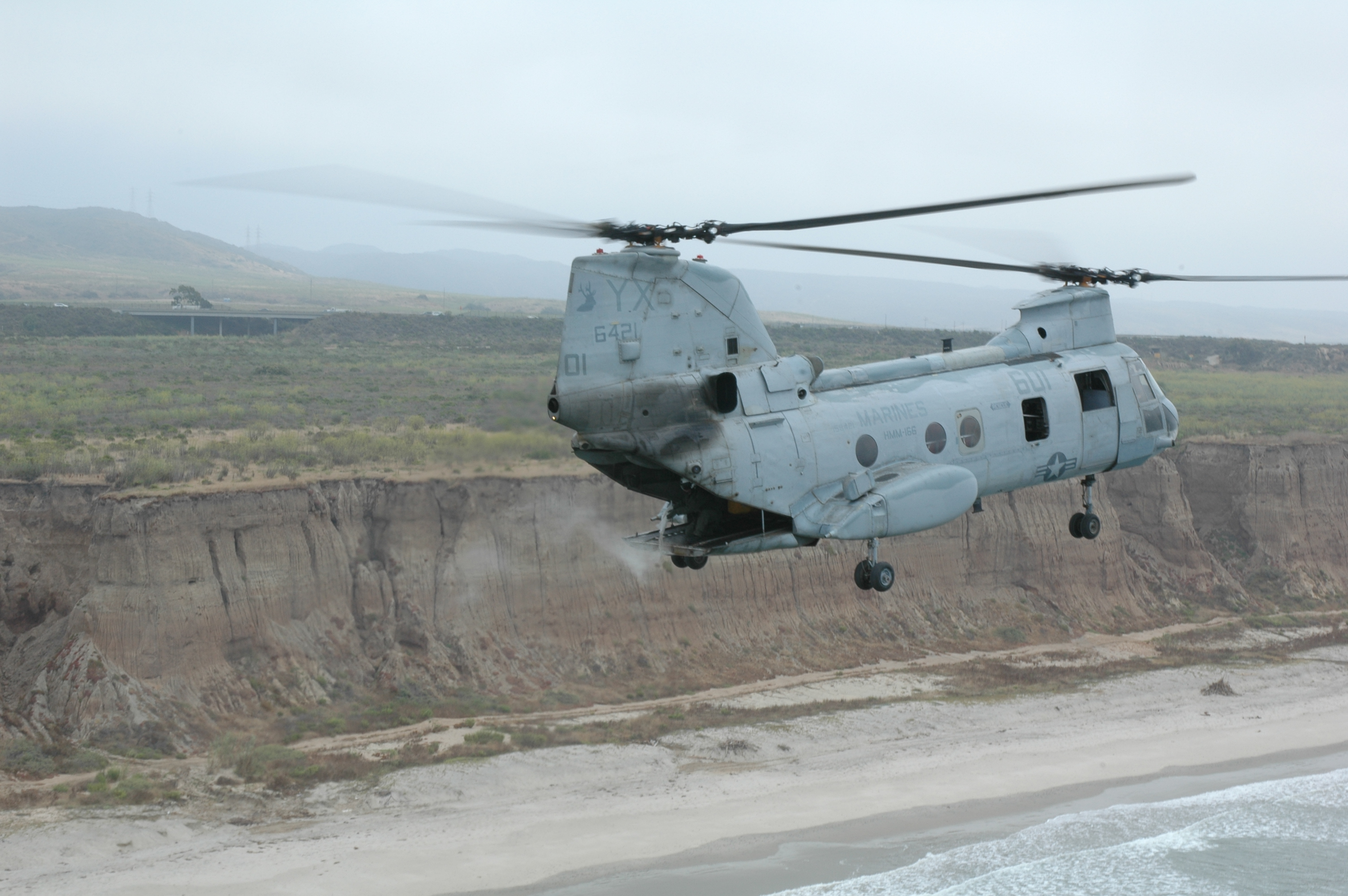 Corporal Sean D. Green, crew chief, Marine Medium Helicopter Squadron 166, Marine Aircraft Group 16, 3rd Marine Aircraft Wing, spreads the ashes of Col. Warren North out to sea from the back of a CH-46E Sea Knight July 11, 2005. North was the second commanding officer of HMM-166, and the squadron felt it fitting to be the ones to execute North's last request. Photo by: Sgt. J.L. Zimmer III